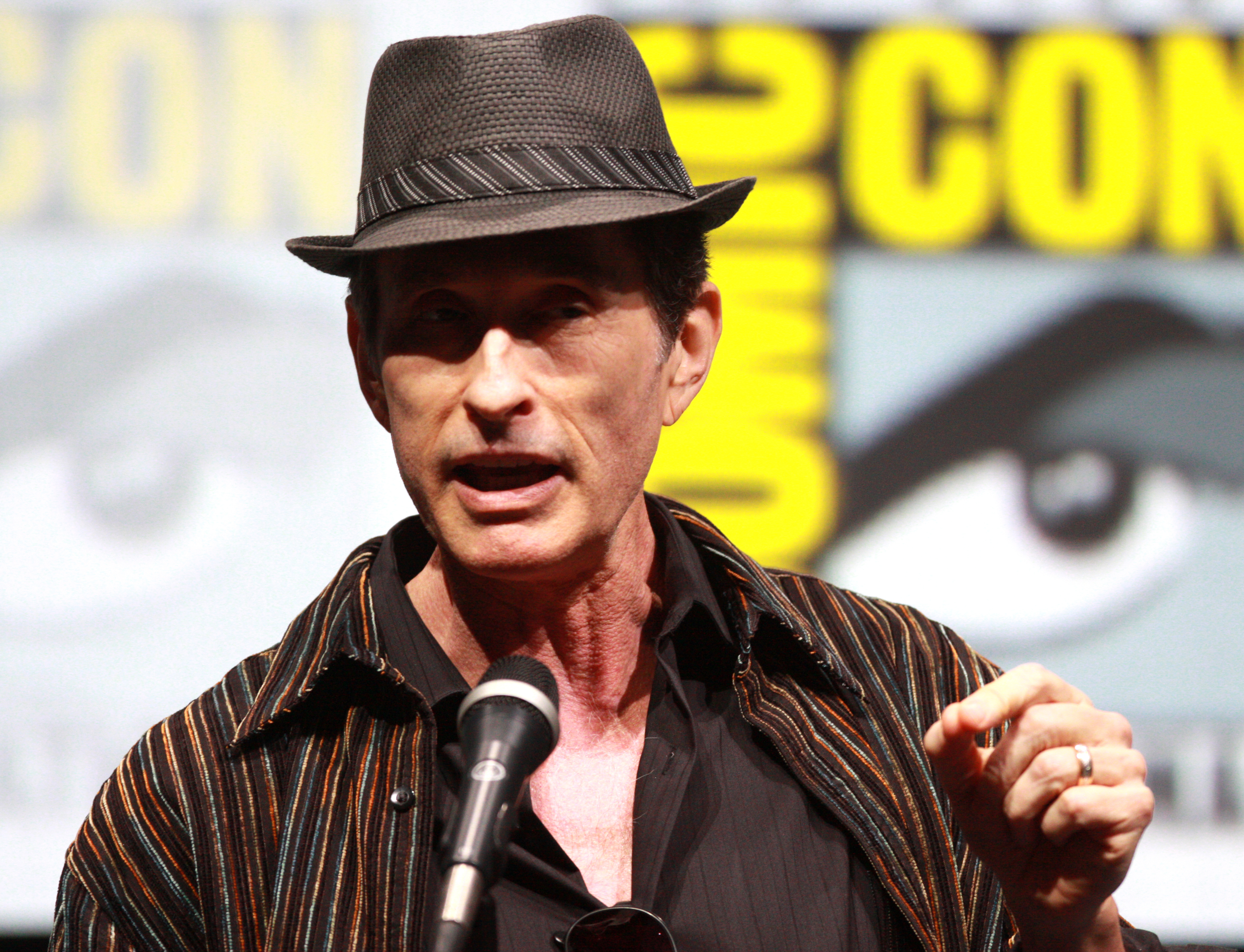 David Twohy speaking at the 2013 San Diego Comic-Con International in San Diego, California.